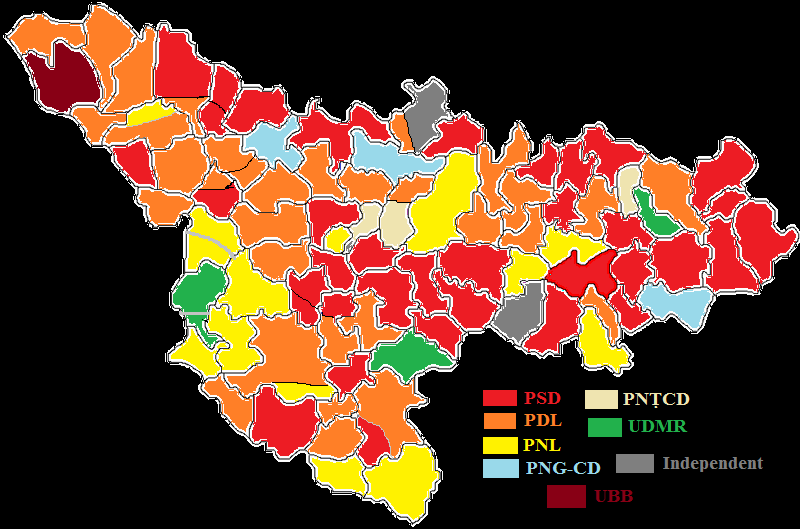 Political map of Timis County, based on the results of the 2012 local elections.